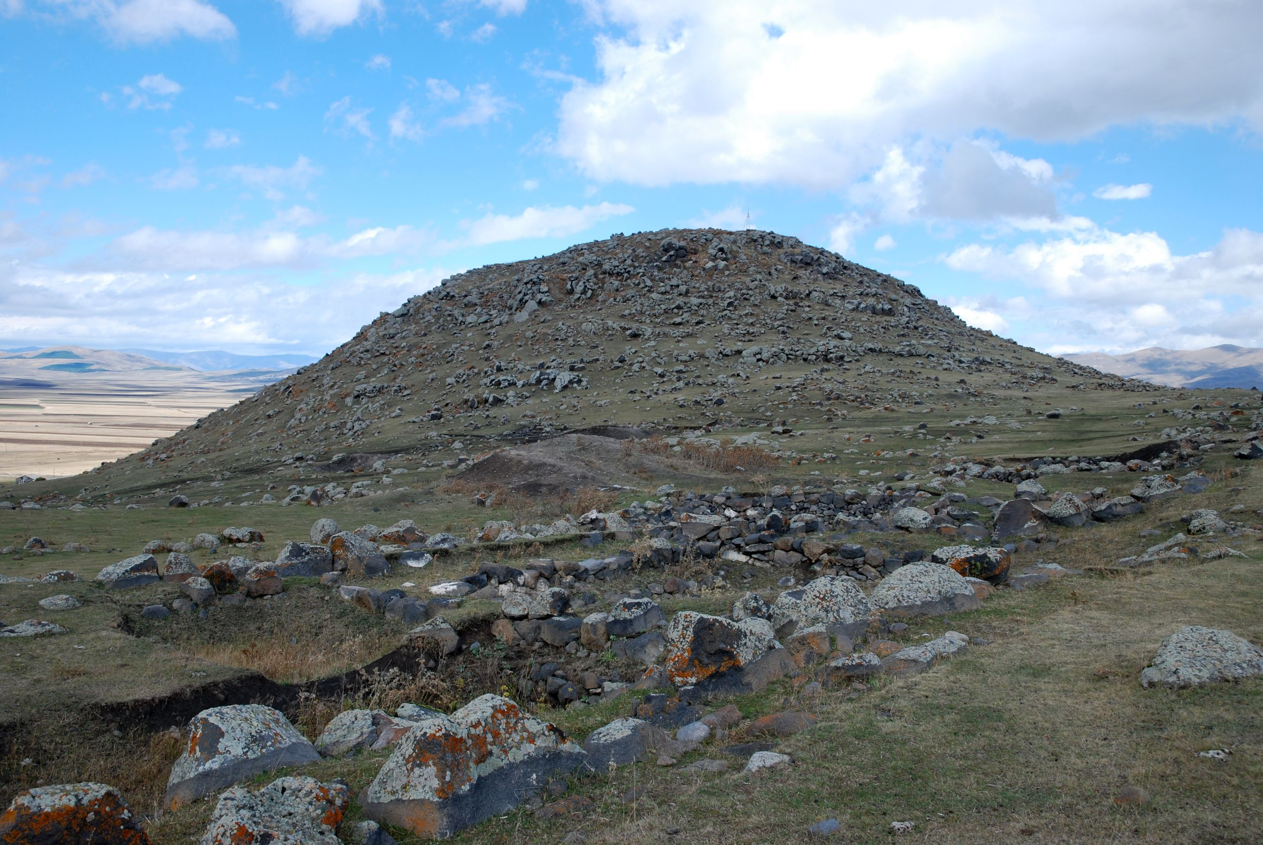 Tsaghkahovit, citadel from south